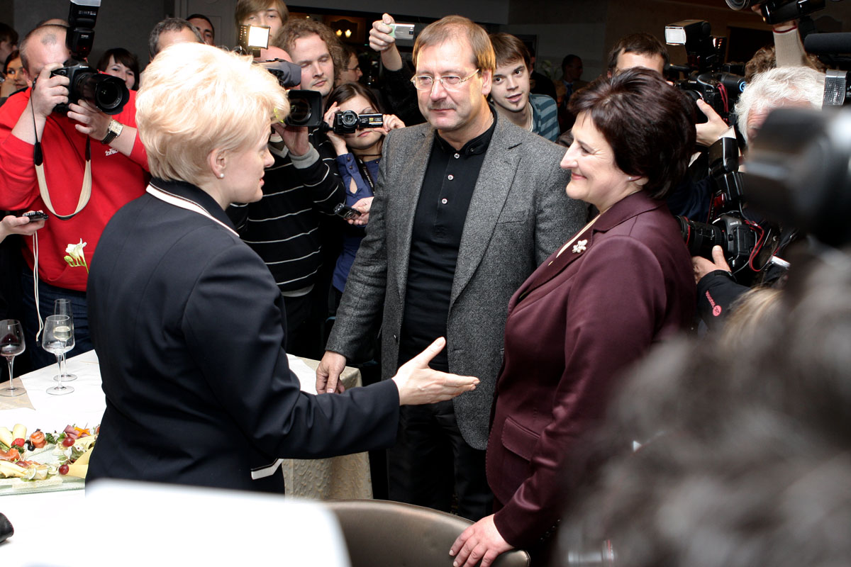 Presidential election of Lithuania, 2009-05-17. Dalia Grybauskaitė and supporters waiting for results. Viktoras Uspaskich, Loreta Graužinienė